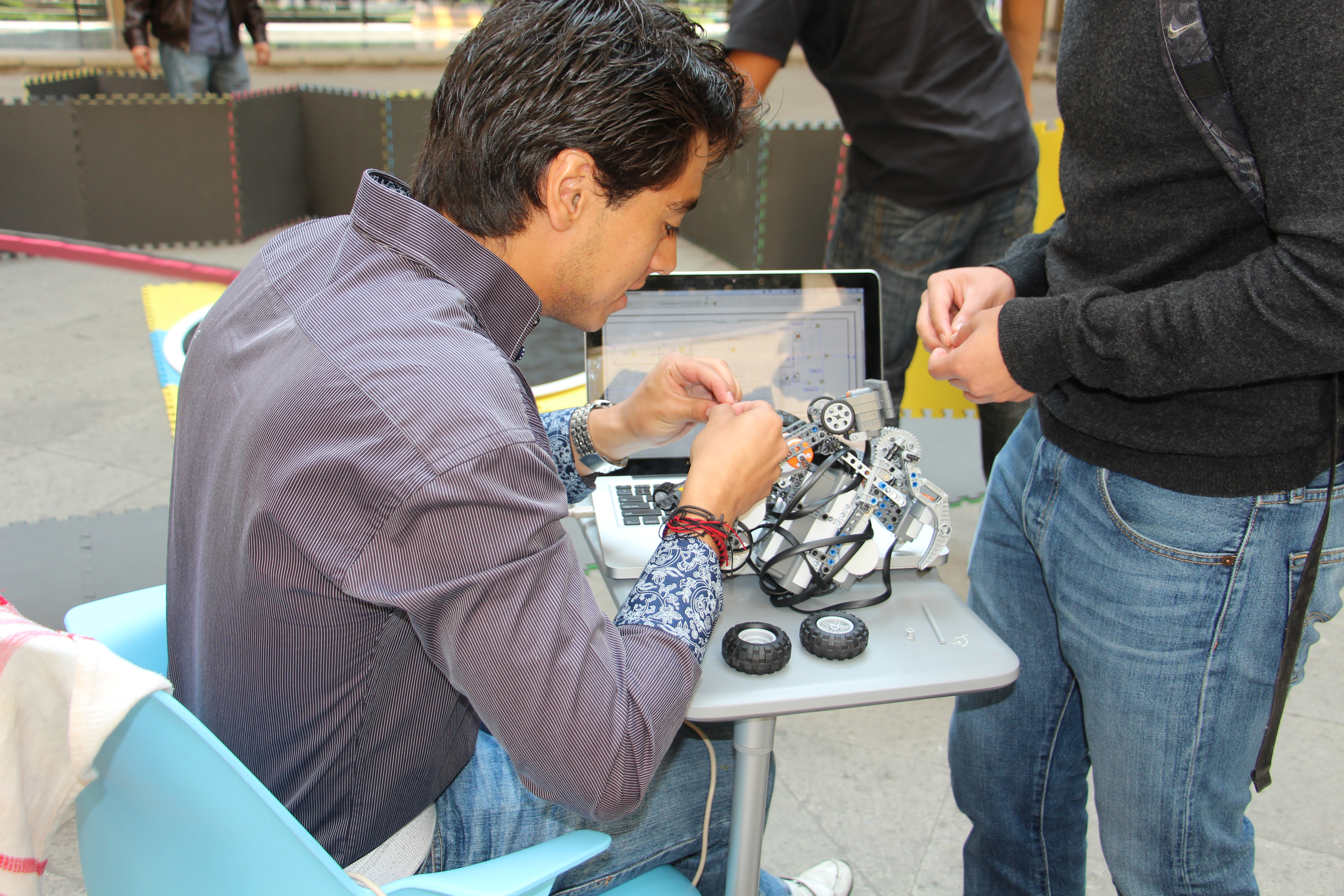 Trabajando en robots para peleas.